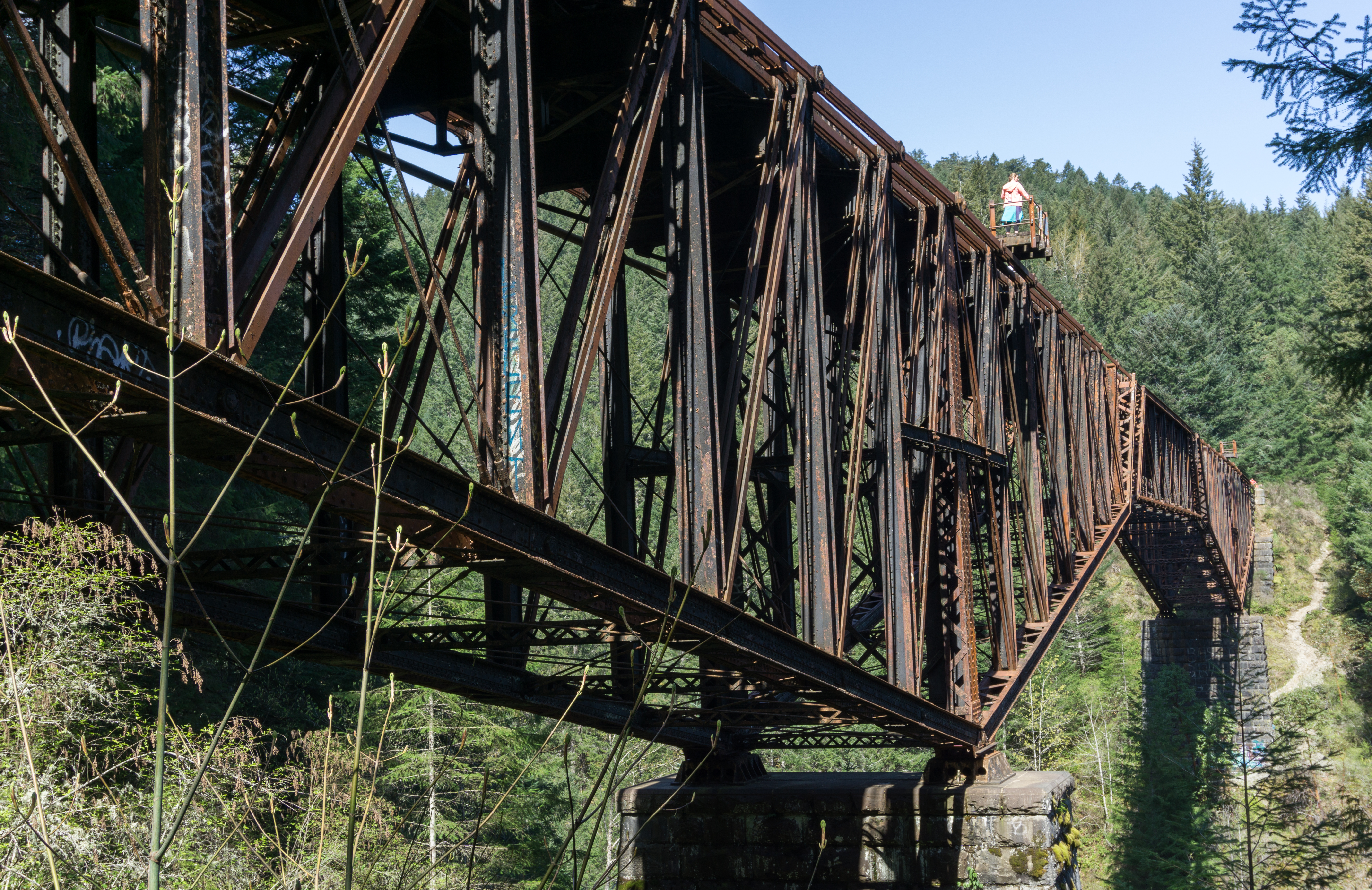 Goldstream Trestle. Southern Railway of Vancouver Island, Canada